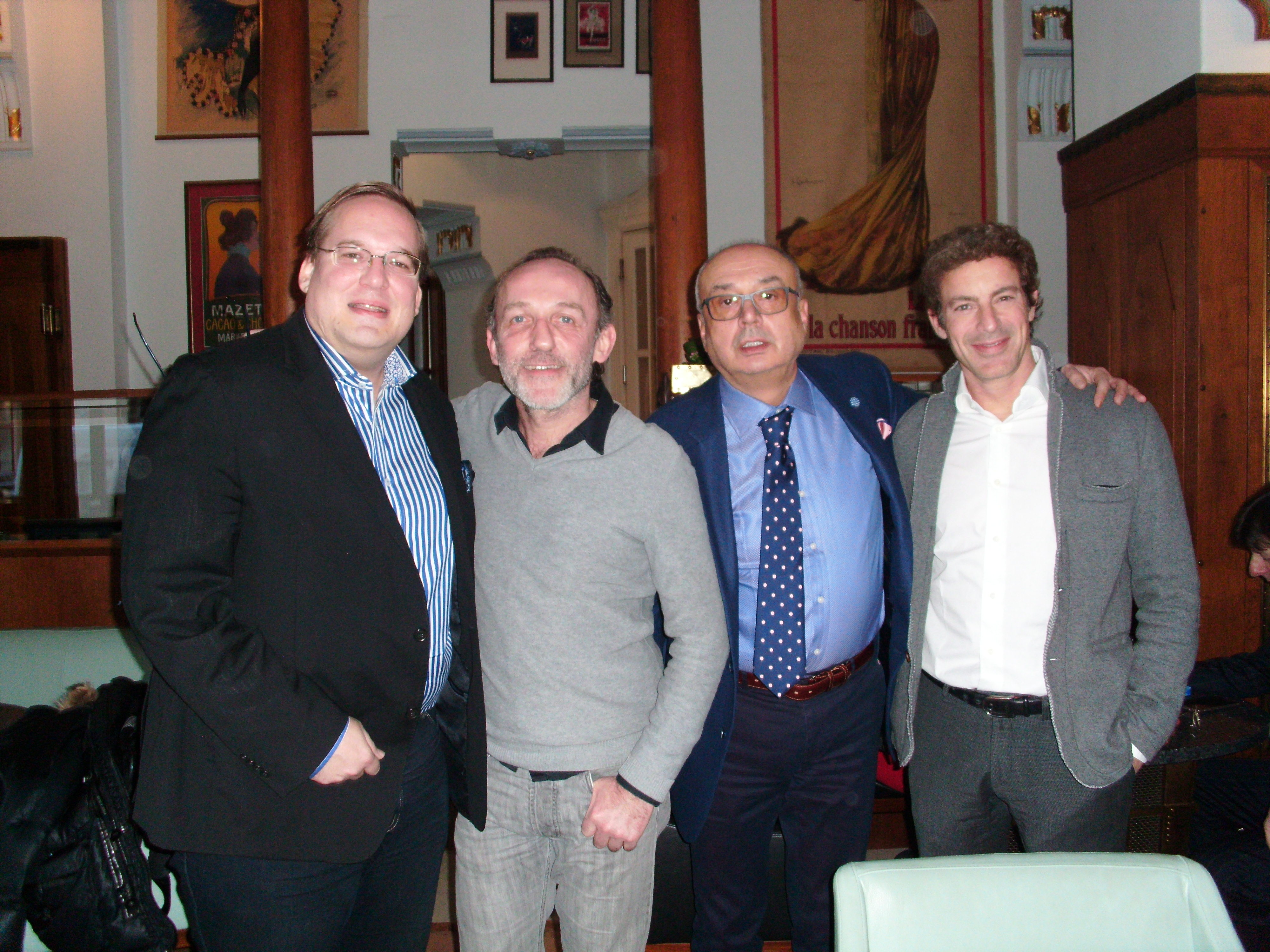 Filip Albrecht with Karl Markovics, Peter Kovařčík and Gedeon Burkhard at the Lida Baarova Press Conference in Prague